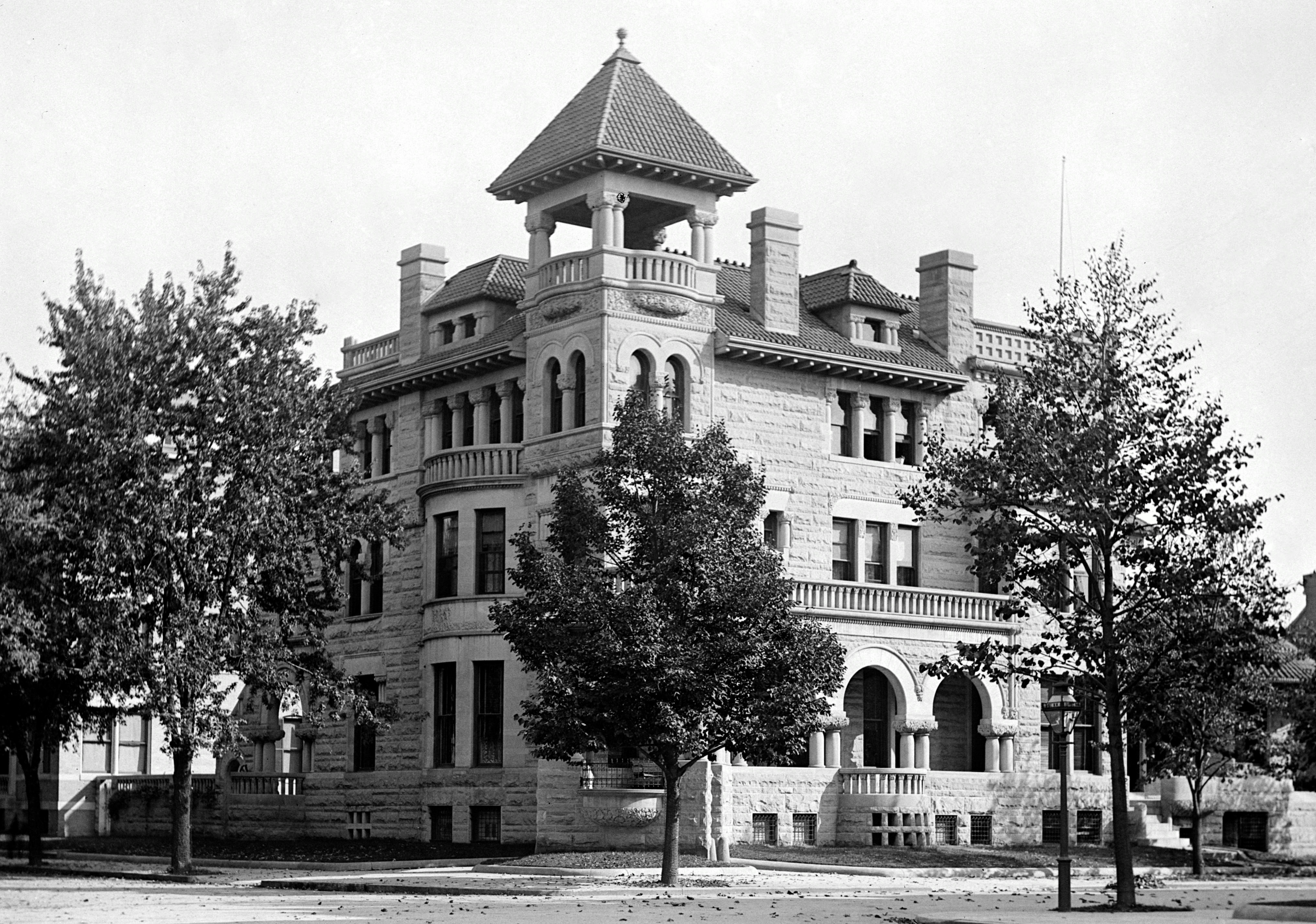 The Colonial School for Girls, formerly known as the Schneider mansion, built in 1891 by it first occupant, noted architect Thomas Franklin Schneider. The Romanesque Revival style building was located at 1764 Q Street, N.W., on the southeast corner of 18th Street and Q Street, N.W., in the Dupont Circle neighborhood of Washington, D.C. The Schneider family only lived in the mansion until 1894, moving to the newly constructed Cairo Apartment Building, also designed by Schneider and located two blocks east. The mansion, including much of its furnishings, was rented to the Qing legation and Envoy Wu Tingfang for a short time, followed by U.S. Senator John F. Dryden, and in 1914, the Colonial School for Girls. The finishing school continued renting the facility until 1930, when the mansion was converted into a boarding house. In 1958, the 67-year-old mansion was demolished to provide parking spaces. The site is now occupied by a nine-story apartment building, the Dupont East, constructed in 1961.